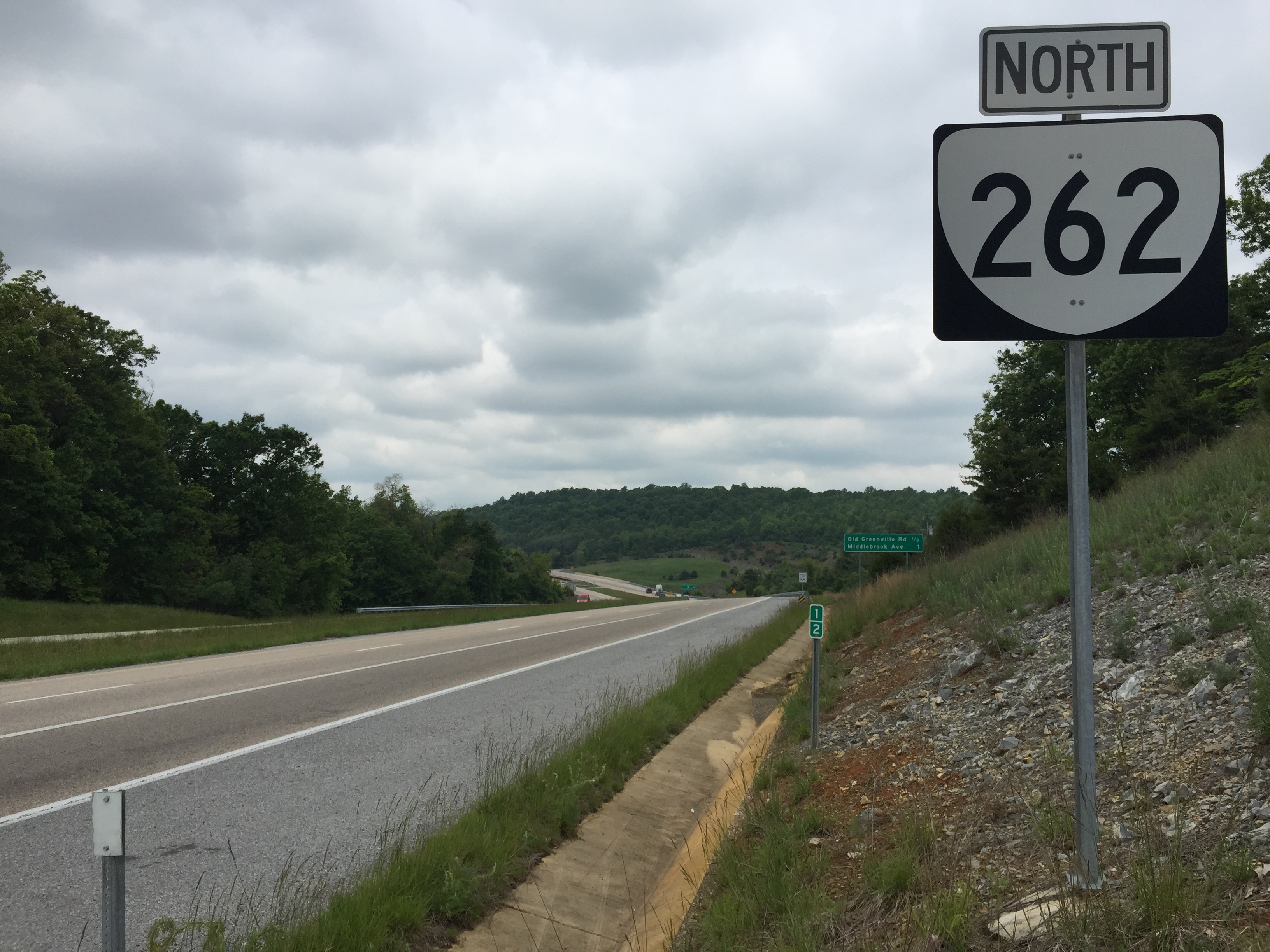 View north along the Woodrow Wilson Parkway (Virginia State Route 262) near Lee Highway (U.S. Route 11) in Jolivue, Augusta County, Virginia